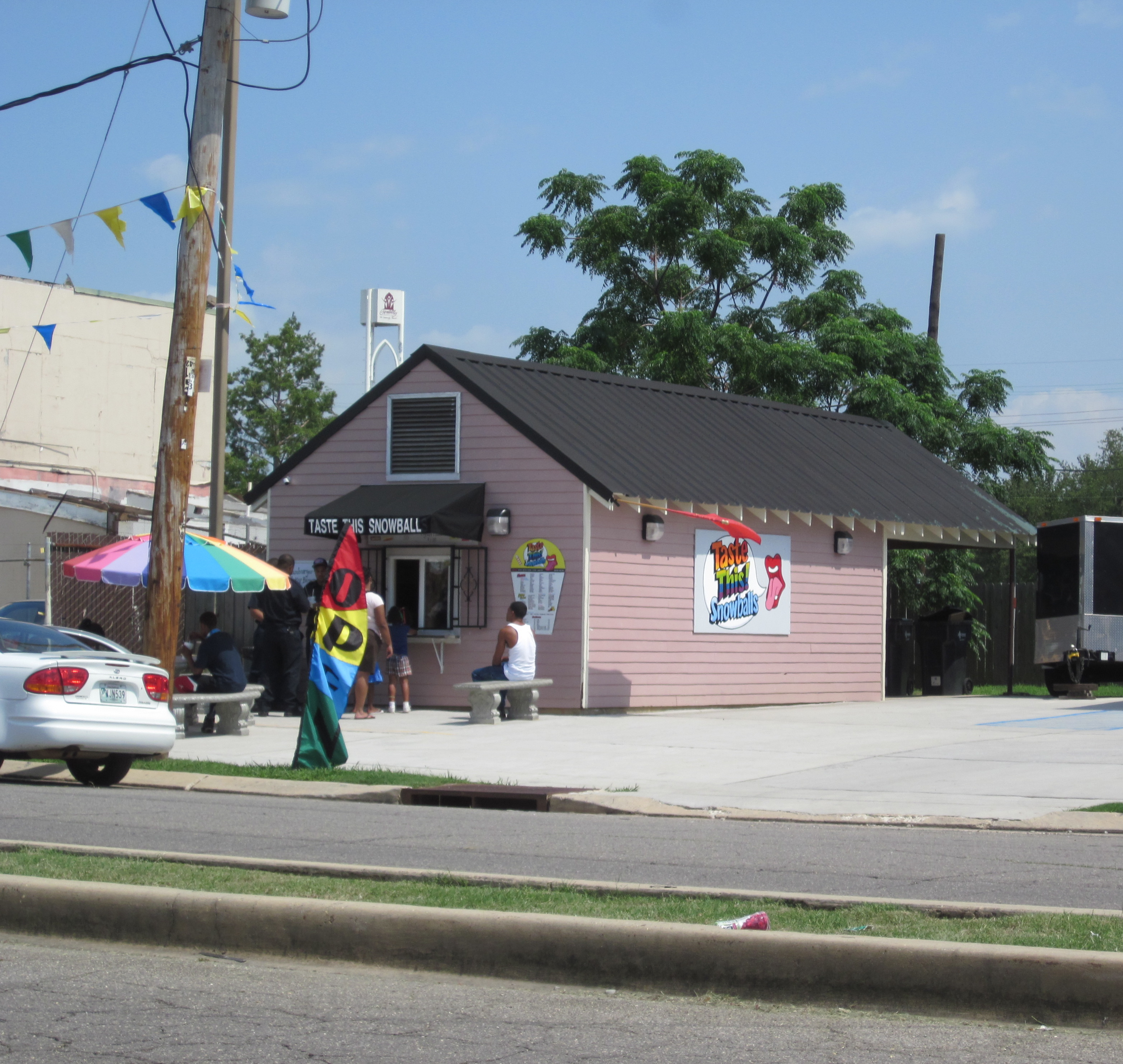 Gentilly section of New Orleans, June 2011. Sno-ball stand. Venus Street off Franklin & Filmore.